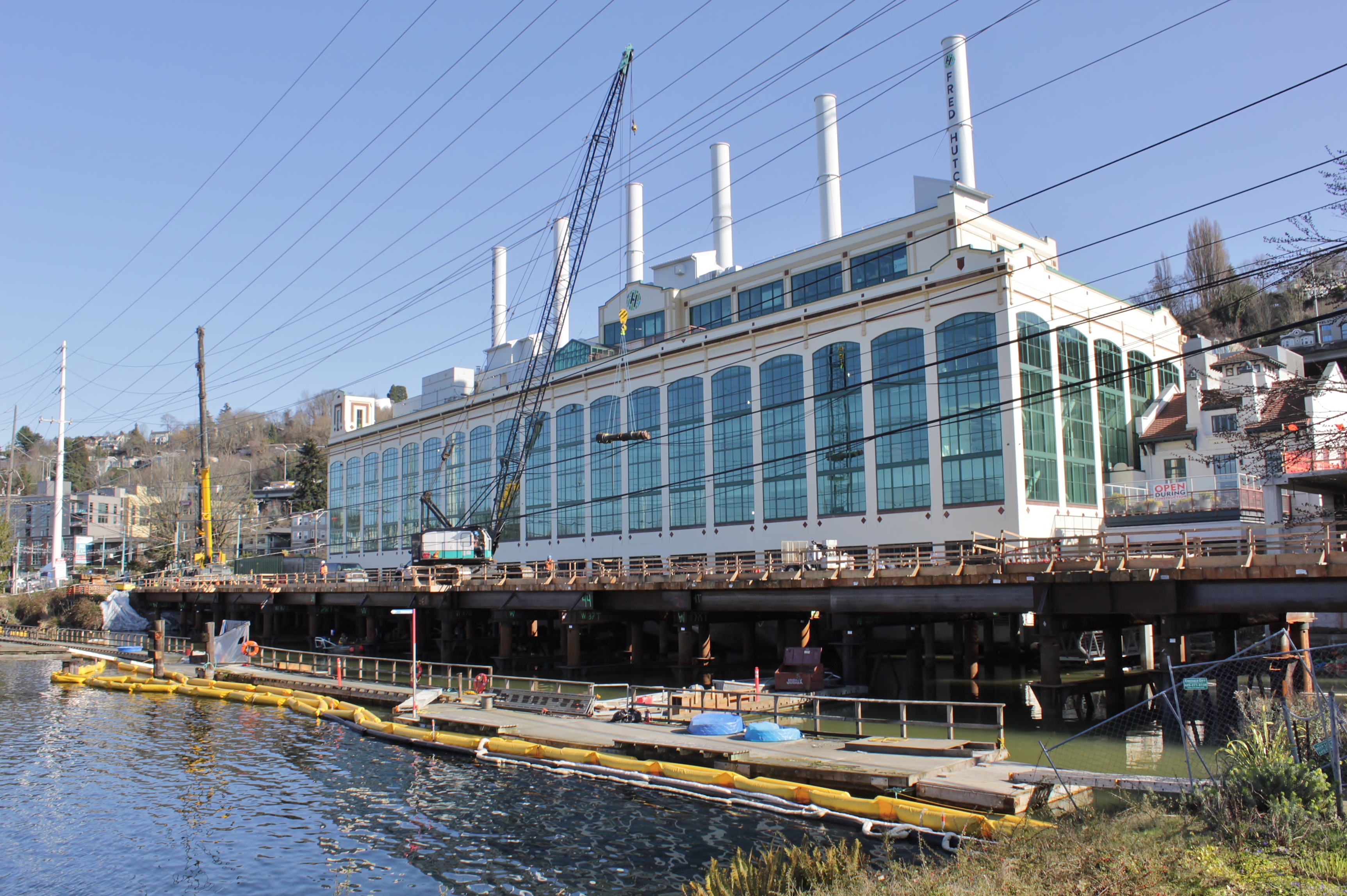 Replacement of the Fairview Avenue North Bridge, a short pile bridge in Seattle, Washington. The Lake Union Steam Plant can be seen in the background.